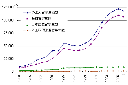 Numbers of foreign students in Japan